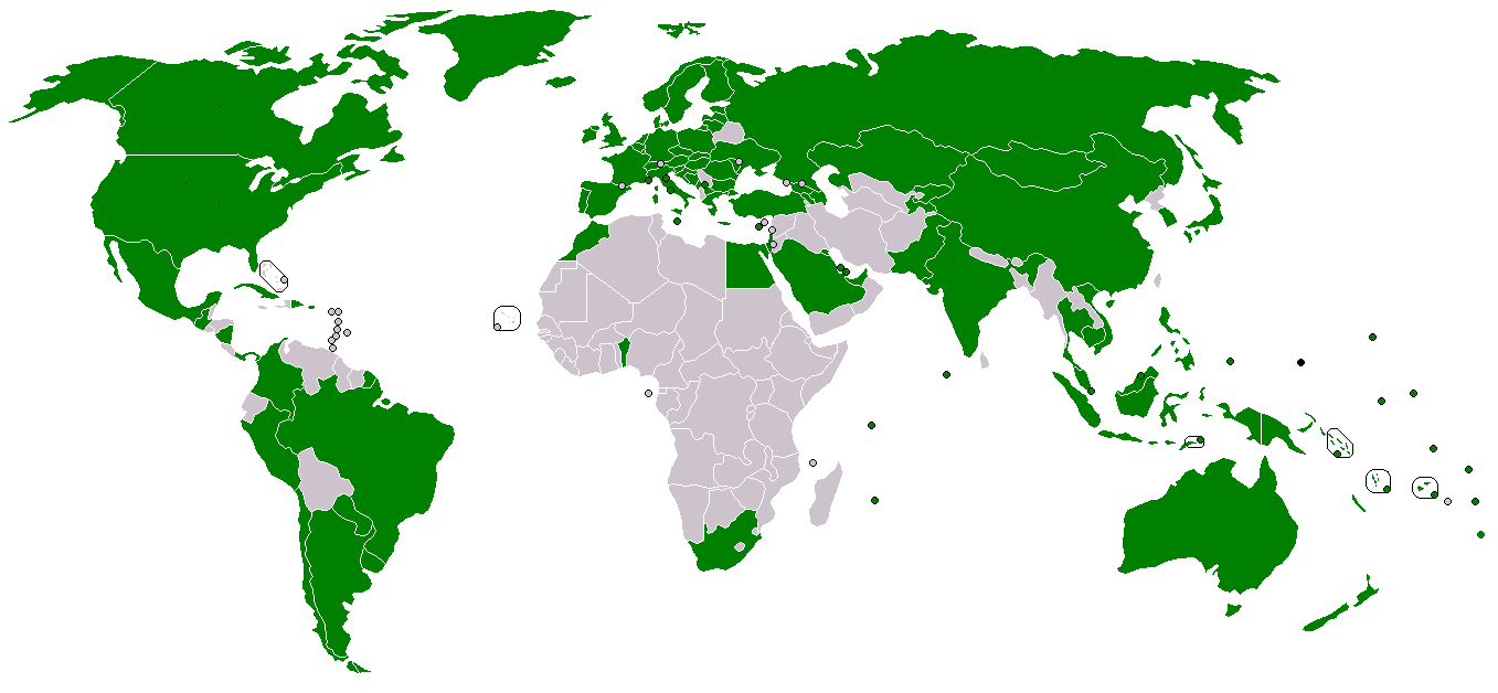 dark green - diplomatic relations, blue - the rest of the EU members (the Federal States of Micronesia has diplomatic relations with the EU, but not individually with those in blue)